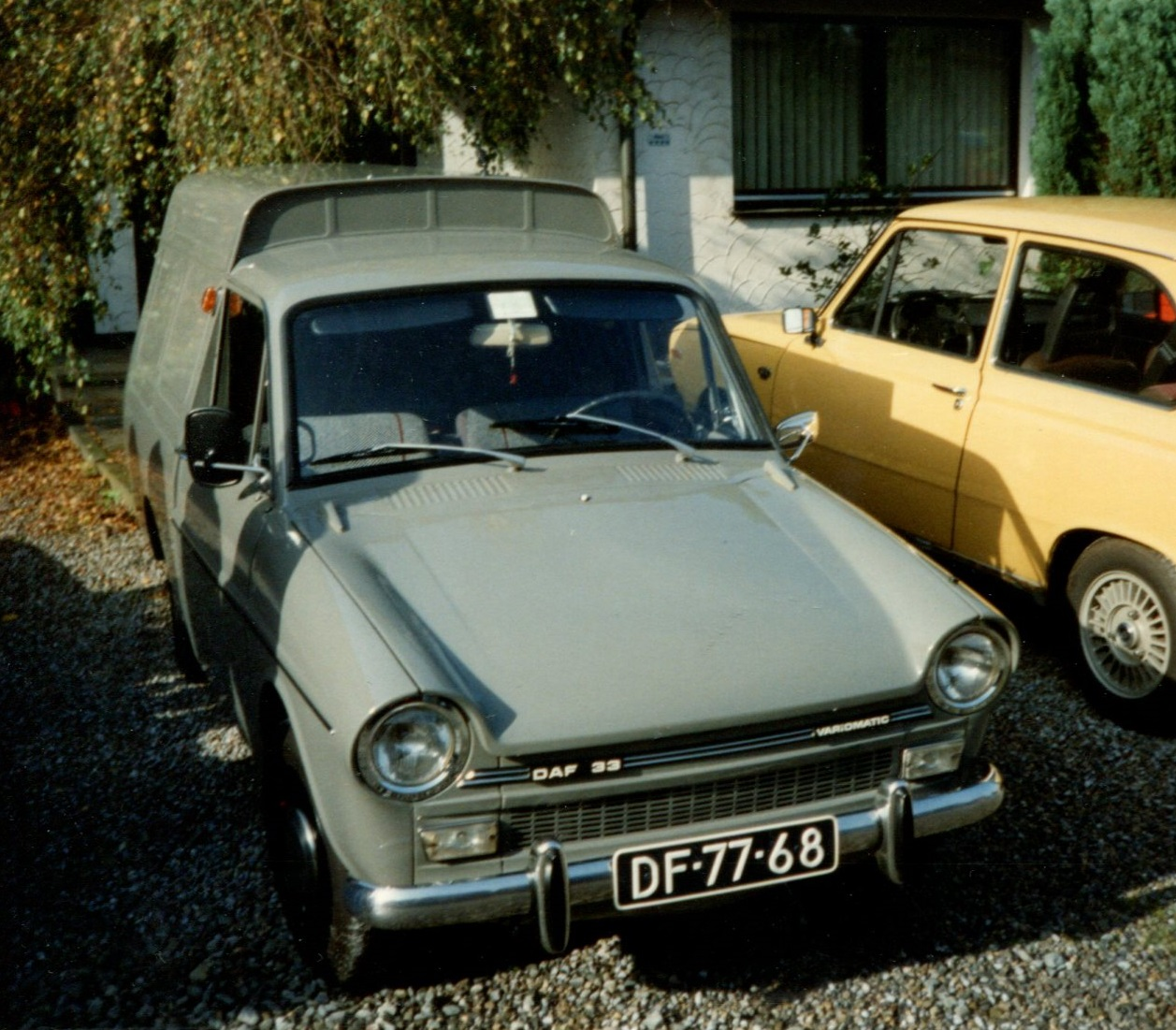 The break version of a Daf 33, shot taken at a German-Dutch fan meeting